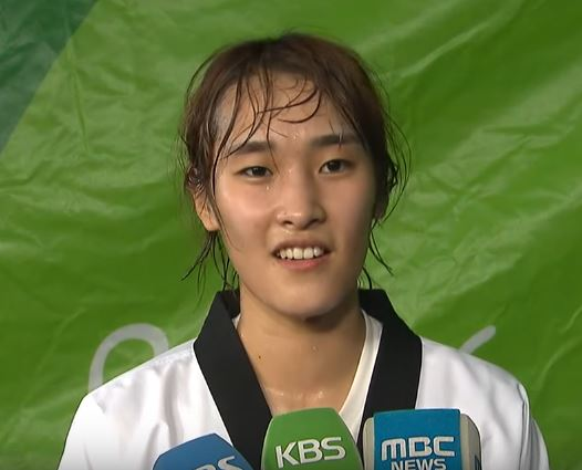 Kim So-hui taekwondo practitioner at the Rio Olympics